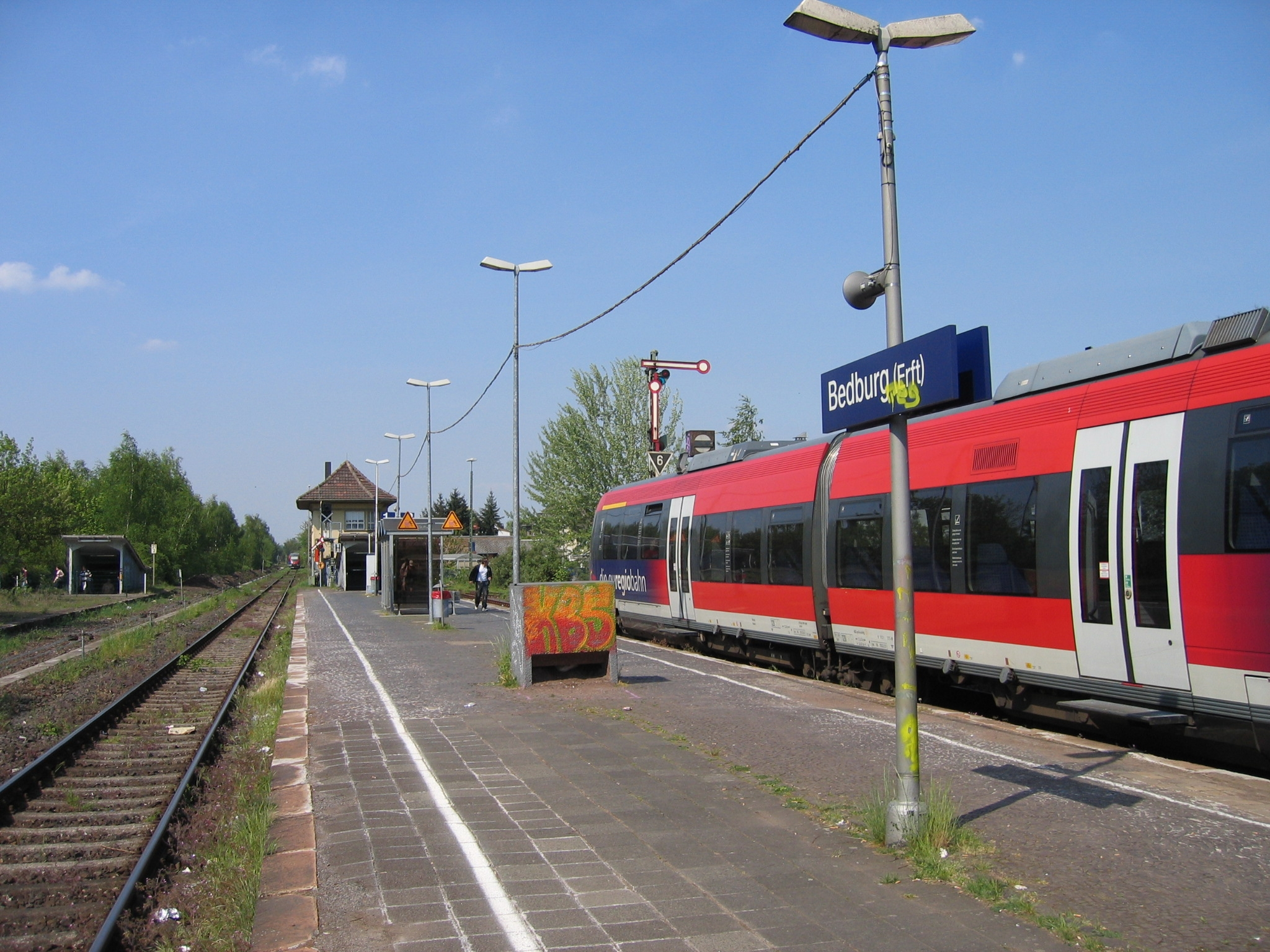 Train at Bedburg train station in Rhein-Erft-Kreis in Germany.